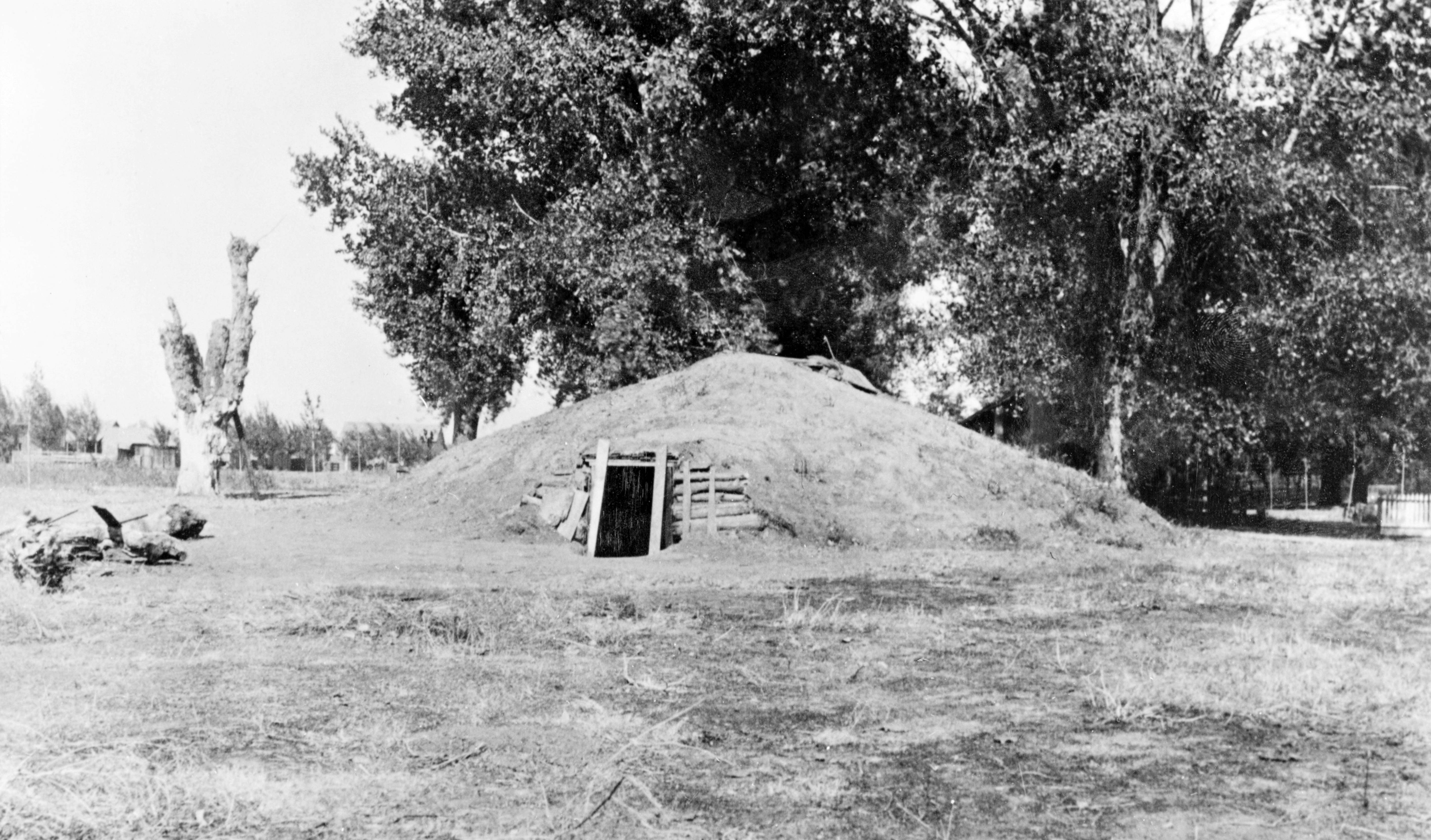 Sweathouse of the Mechoopda, a Maidu people on Chico Rancheria